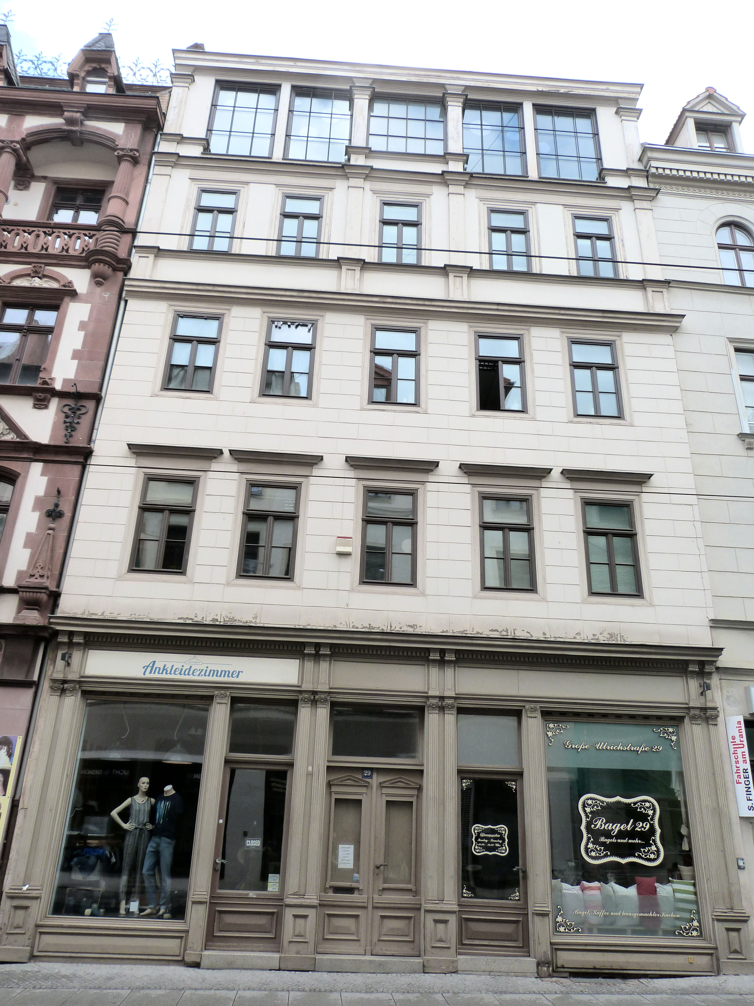 House No. 29, Grosse Ulrichstrasse, Halle (Saale)